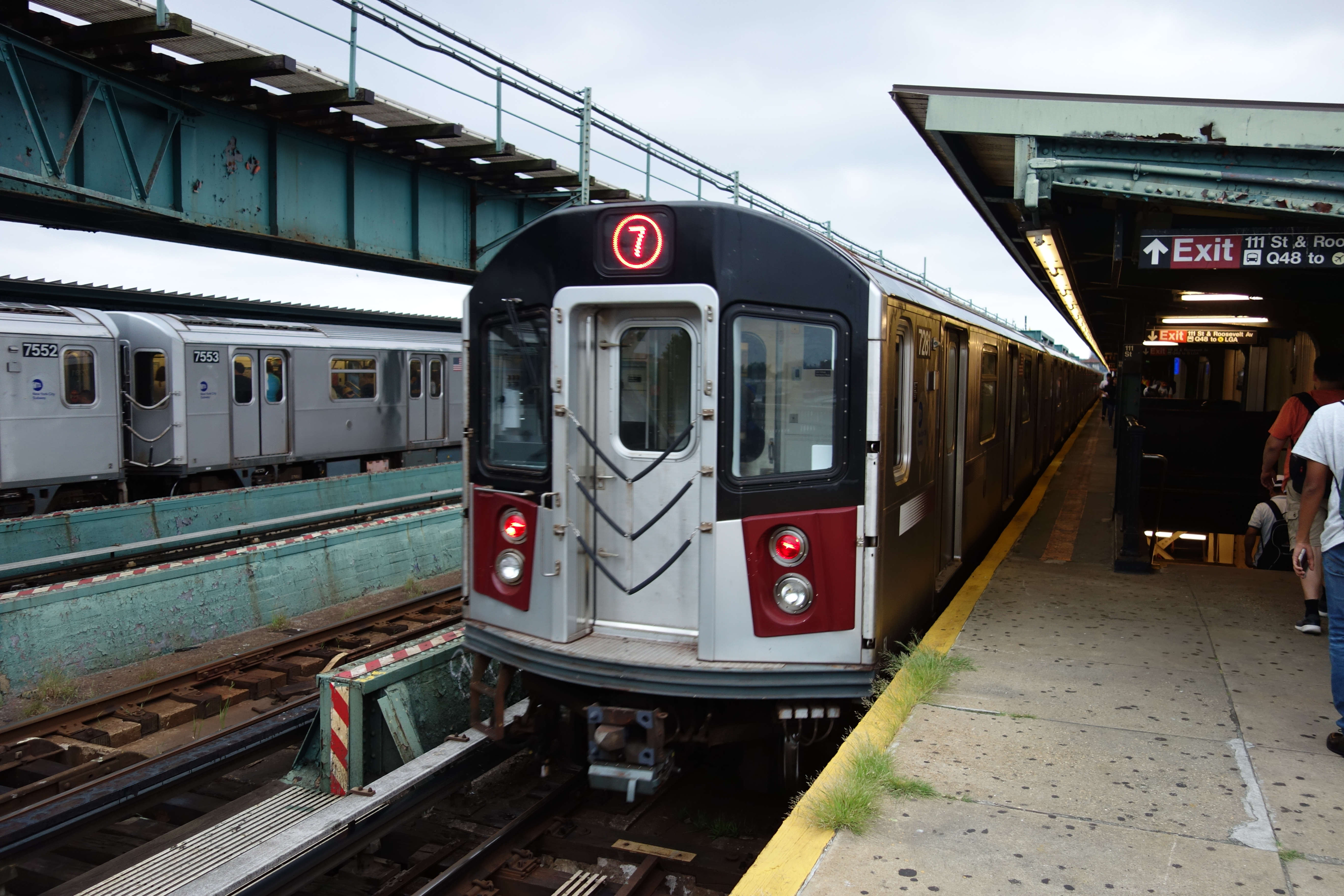 A Flushing–Main Street-bound 7 local train leaving the Queens-bound platform of the 111th Street IRT Flushing Line station, above Roosevelt Avenue and 111th Street in Corona, Queens.